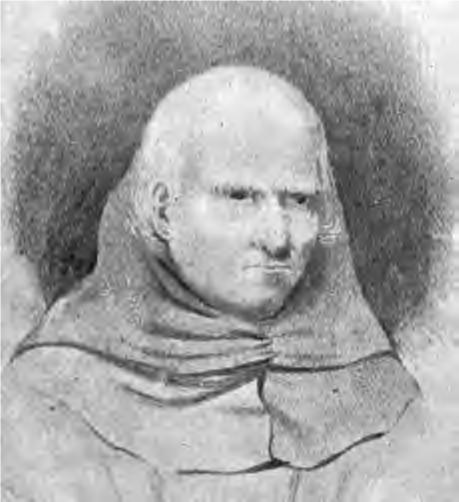 Father Geronimo Boscana (1776-1831), a Spanish missionary.